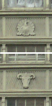 Cropped from an image I took for Wikipedia